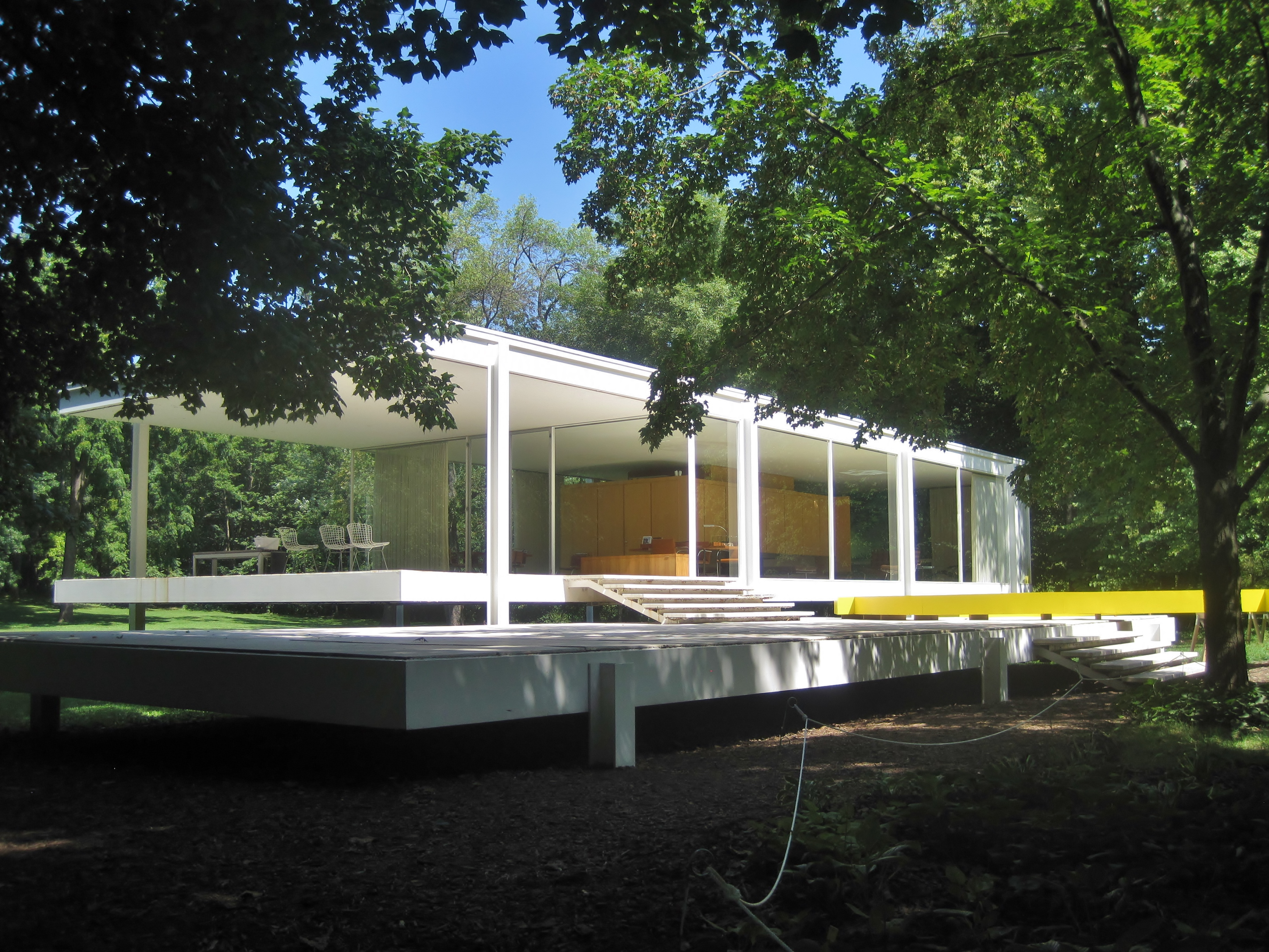 The Farnsworth House (1945−51) — Modernist residence designed by Ludwig Mies van der Rohe, located near Plano, Illinois. Dr. Edith Farnsworth commissioned Mies to design a state-of-the-art house like the ones she read about in Europe. Situated above the Fox River, the house was instantly recognized as an architectural milestone with its all-glass exterior and modernist expression. Mies and Farnsworth fought near the end stages of the project, so some aspects of the building were never installed. Farnsworth used the house as a summer retreat for the next 21 years. The house was sold in 1972 to Lord Peter Palumbo, who would later purchase FLW's Kentuck Knob near Fallingwater.